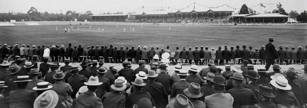 The Adelaide Oval, second day of the third test between Australia and England, 20 January 1902. Australia won by 4 wickets. "The English skipper commenced the day with a vigorous bombardment by his artillery, and the little Gunn proved a veritable Long Tom in his destructiveness. The batsmen offered resistance for a while, but he hurled his ammunition with such deadly precision that all opposition was futile, and the Australian side succumbed to the vigorous attack. Gunn conquered five wielders of the willow at a cost of 76 runs." The Register newspaper, Tuesday 21 January 1902.